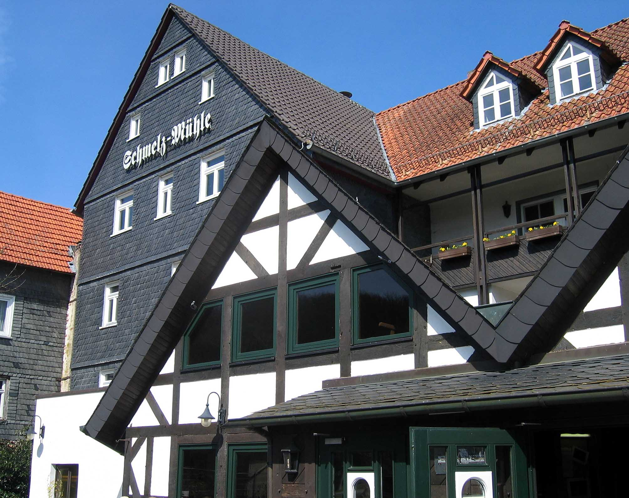 An old mill in a small valley of Hessia